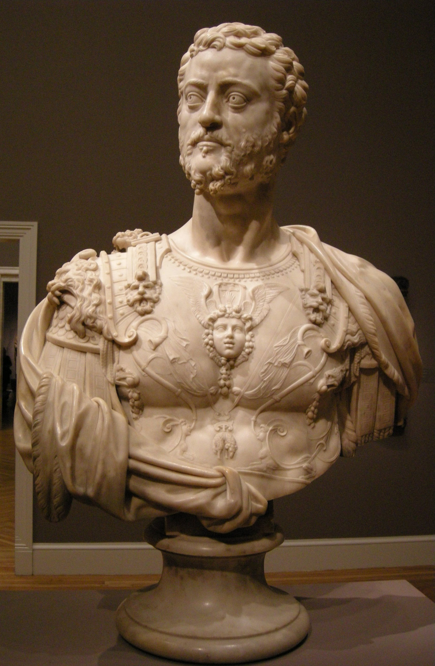 Portrait Bust of Cosimo I de' Medici by Benvenuto Cellini, c. 1549-1573, pentelic marble, California Palace of the Legion of Honor